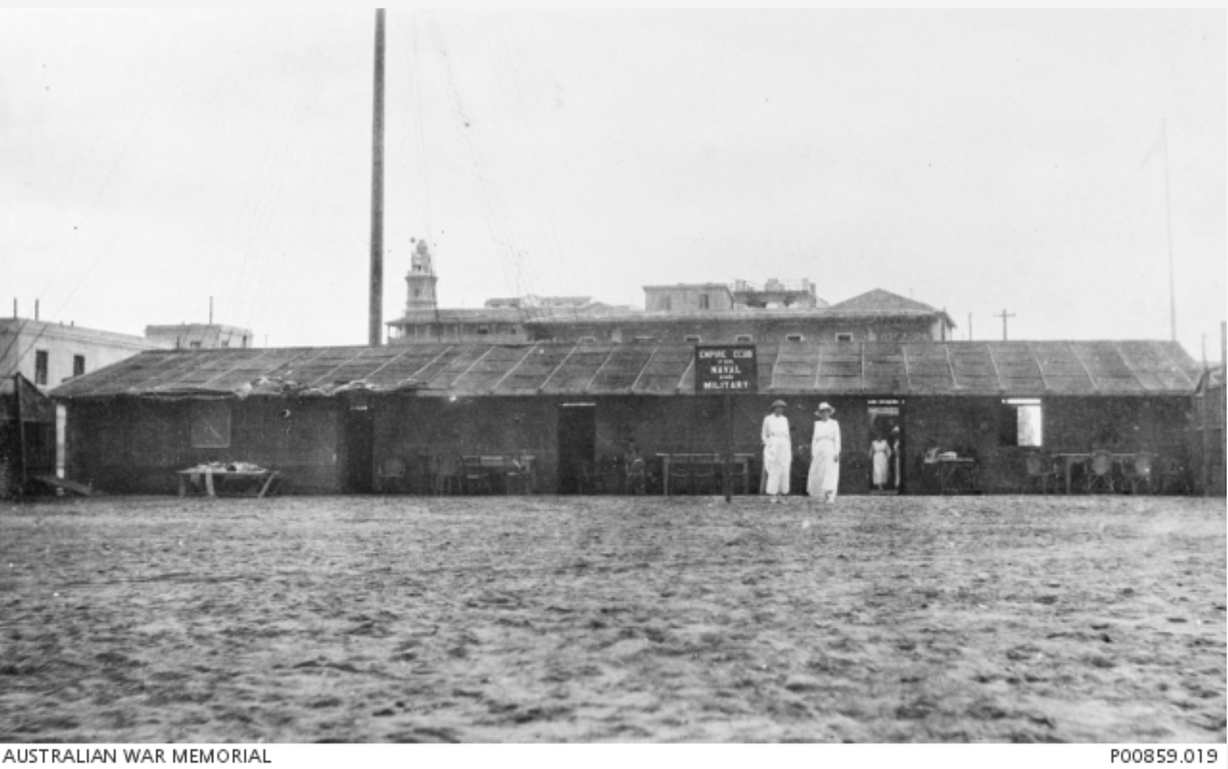 Kantara Canteen was established in about 1916 by Alice Chisholm for the benefit of Australian, New Zealand and British soldiers on leave from active service in Egypt. The sign reads “Empire Club for Naval And Military”.